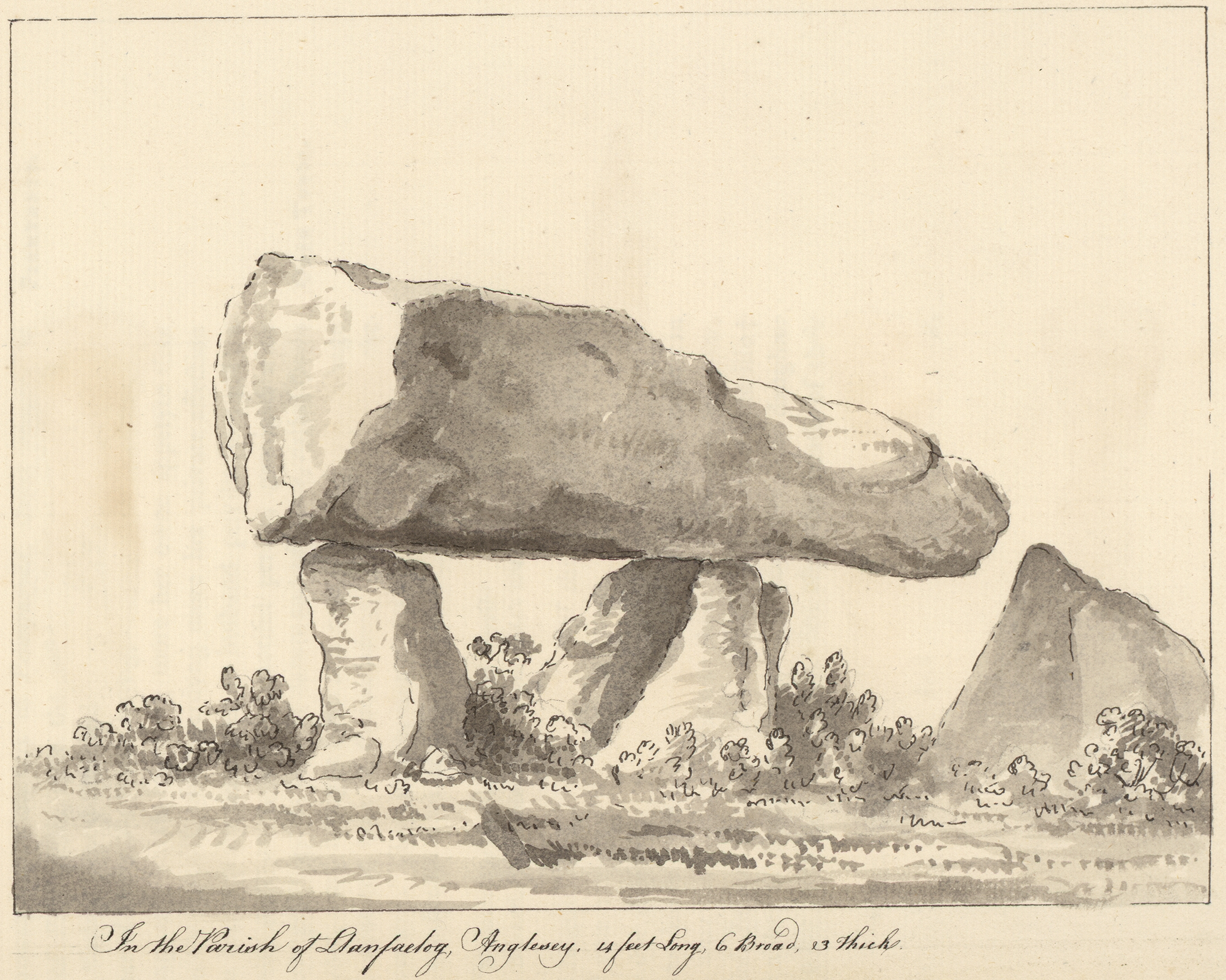 An image from a set of 8 extra-illustrated volumes of A tour in Wales by Thomas Pennant (1726-1798) that chronicle the three journeys he made through Wales between 1773 and 1776. These volumes are unique because they were compiled for Pennant's own library at Downing. This edition was produced in 1781. The volumes include a number of original drawings by Moses Griffiths, Ingleby and other well known artists of the period. Thomas Pennant (1726-1798)